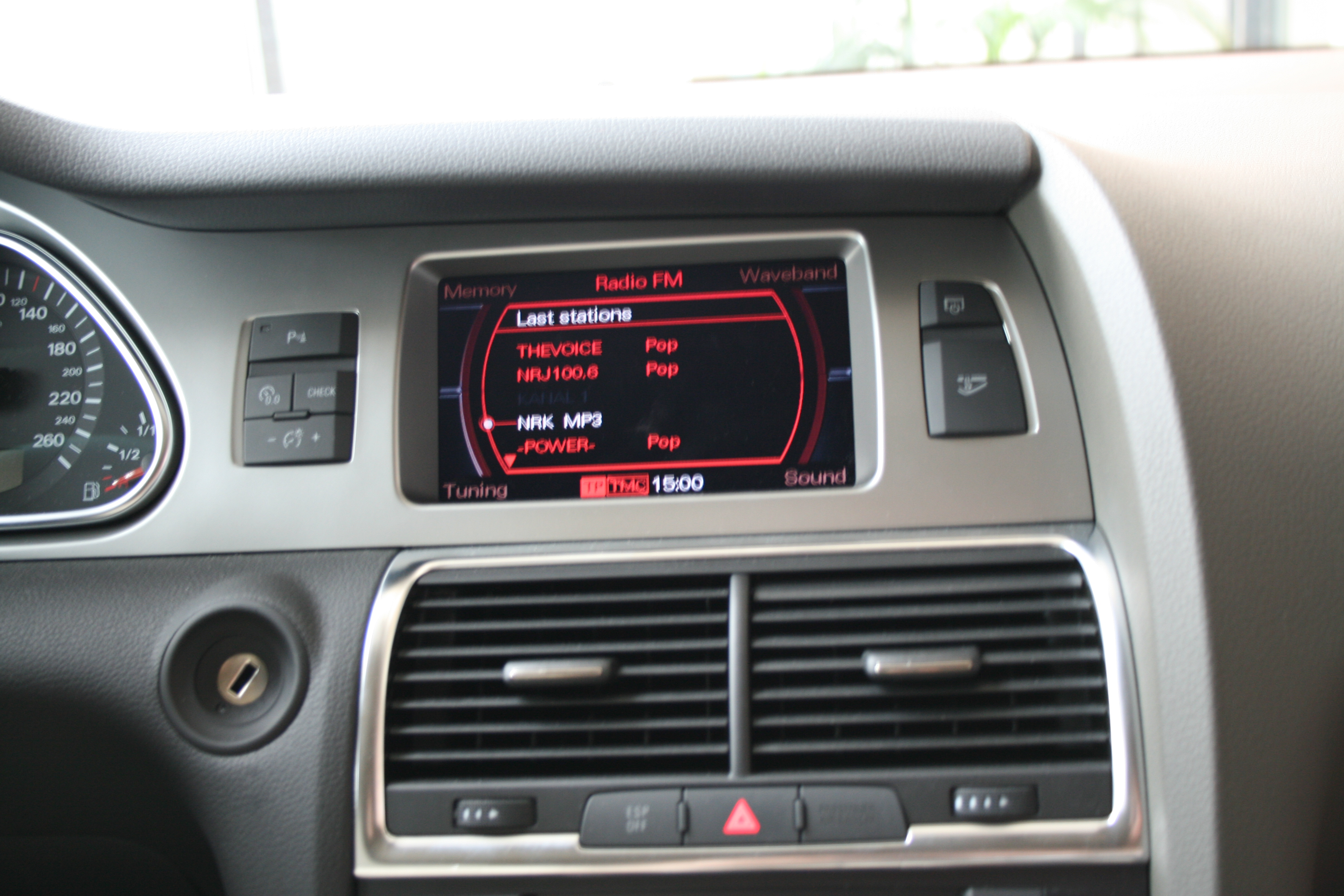 Picture of the screen in Audi's MMI system